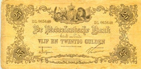 Old Dutch 25 gulden bill, used from 1861 to 1921.